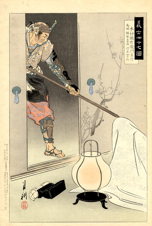 Ronin are masterless samurai. Chushingura is the true story of 47 samurai who became masterless in 1701, after their lord had been forced to commit ritual suicide (seppuku) for assaulting a court official who had insulted him. They avenged him by killing the court official after patiently planning for over a year. They were themselves then forced to commit seppuku.